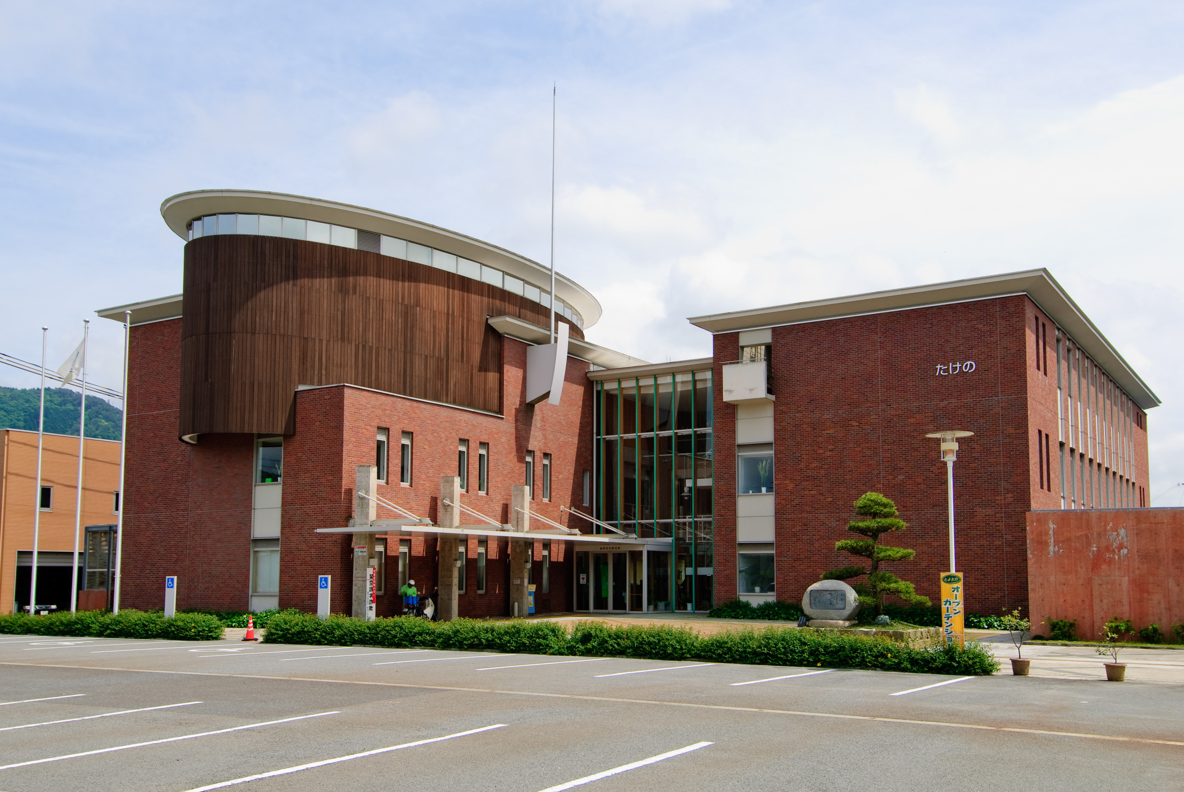 Toyooka City Hall in Toyooka, Hyogo Prefecture, Japan.